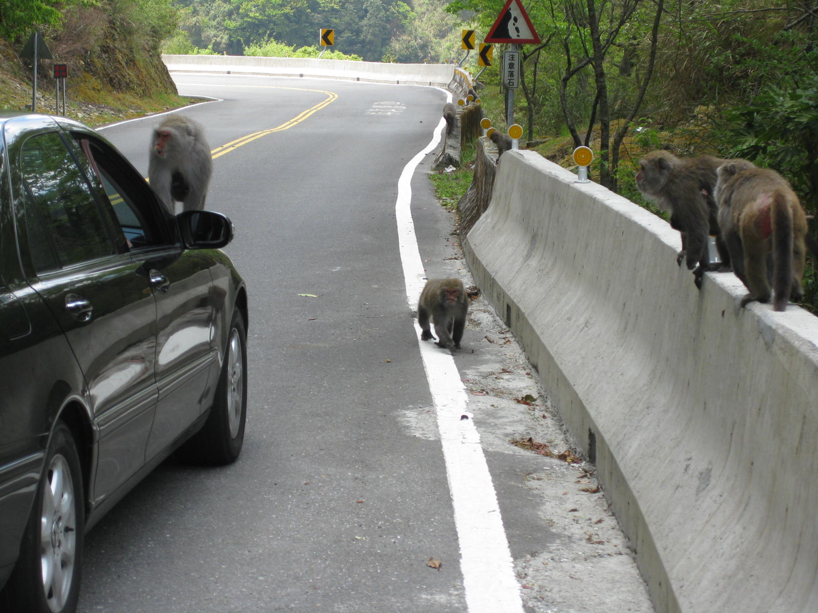 Formosan Macaque taken at Shihshan.